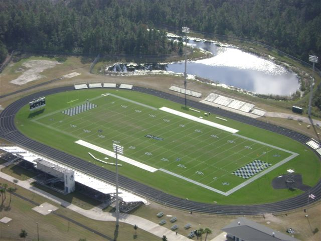 The Bartram Trail High School football field after the recreation by the National Football League. After the email I had with Michael Clark, shown on Image:Bartram Trail High.jpg, giving permission to use that image as public domain, I requested this image's status so I may use it. He found the owner of the image is Ronnie Griffin. Michael Clark spoke with Ronnie Griffin by e-mail and permission was granted.